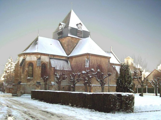 Church of Juniville, Ardennes, France.